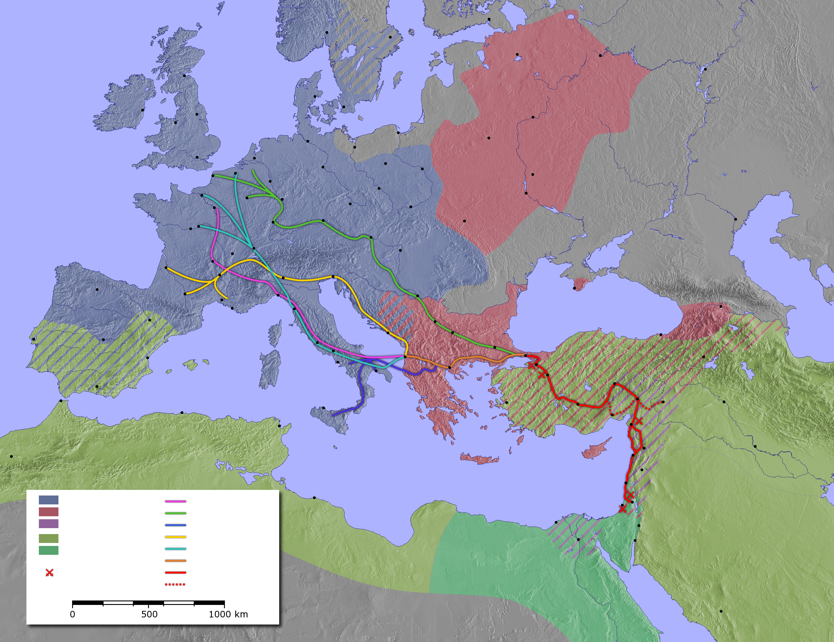 Map of the first crusade. Translation of this card made on the German Wikipedia.